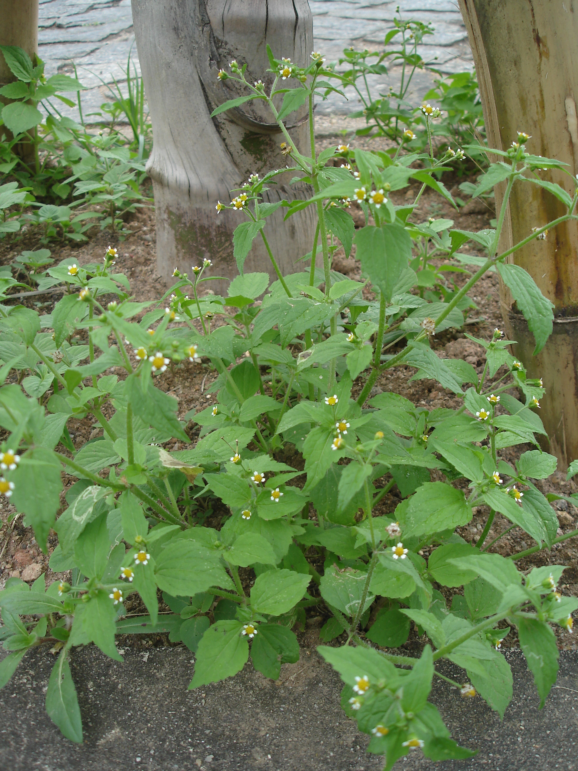 Leaves, branch and flowers of Galinsoga parviflora (